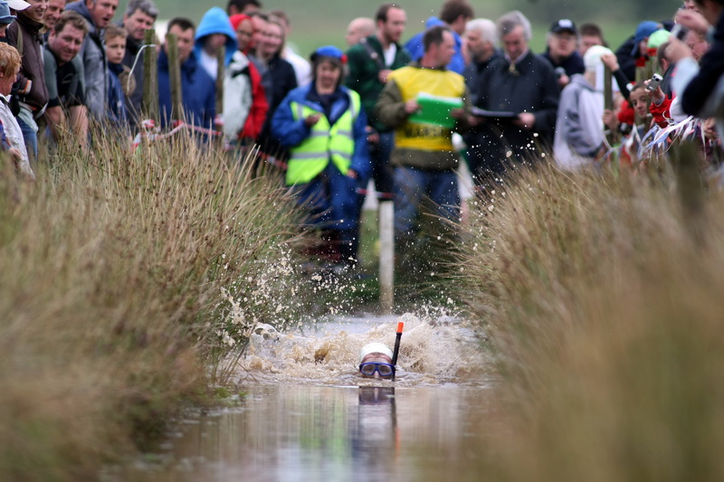 Competitor of the World Bog Snorkelling Championship at the dense Waen Rhydd peat bog, near Llanwrtyd Wells in mid Wales. Image by